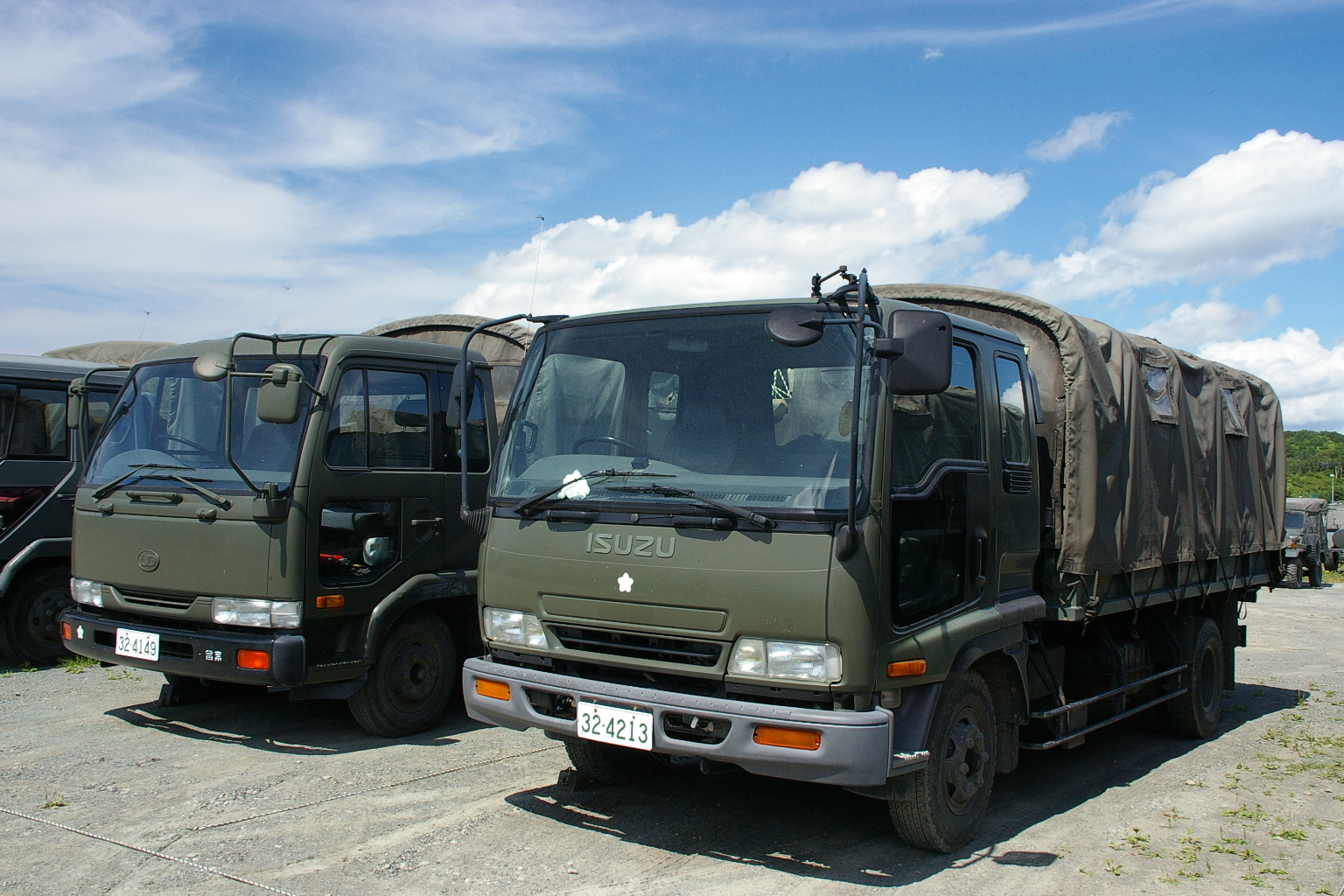 Japan Ground Self Defense Force, Isuzu Foward.